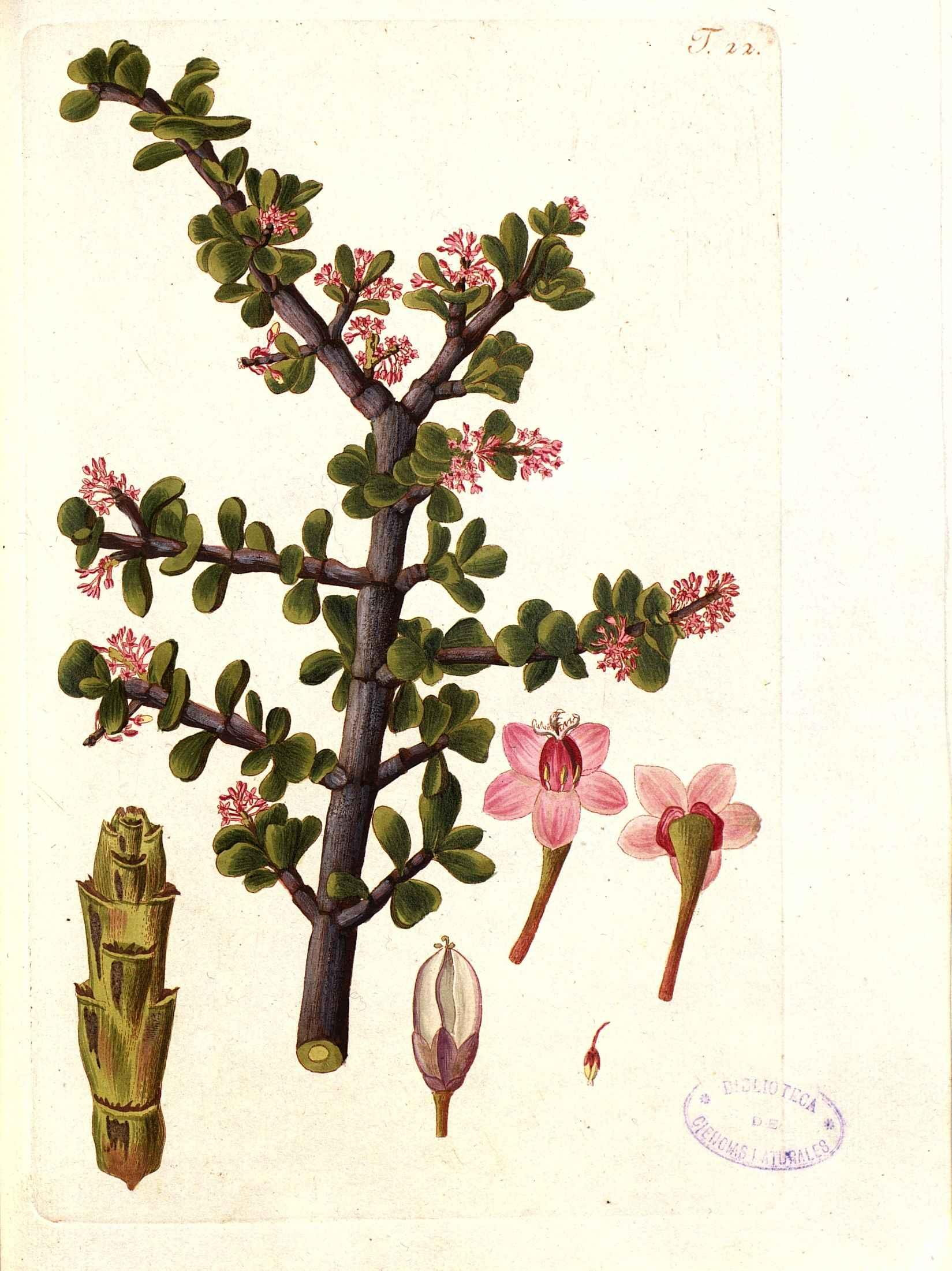 Illustration von Portulacaria afra aus Collectanea Band I, 1787, Tafel 22